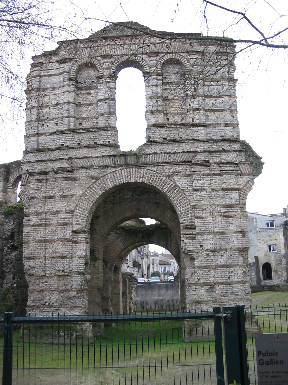 The Palace of Gallienus.